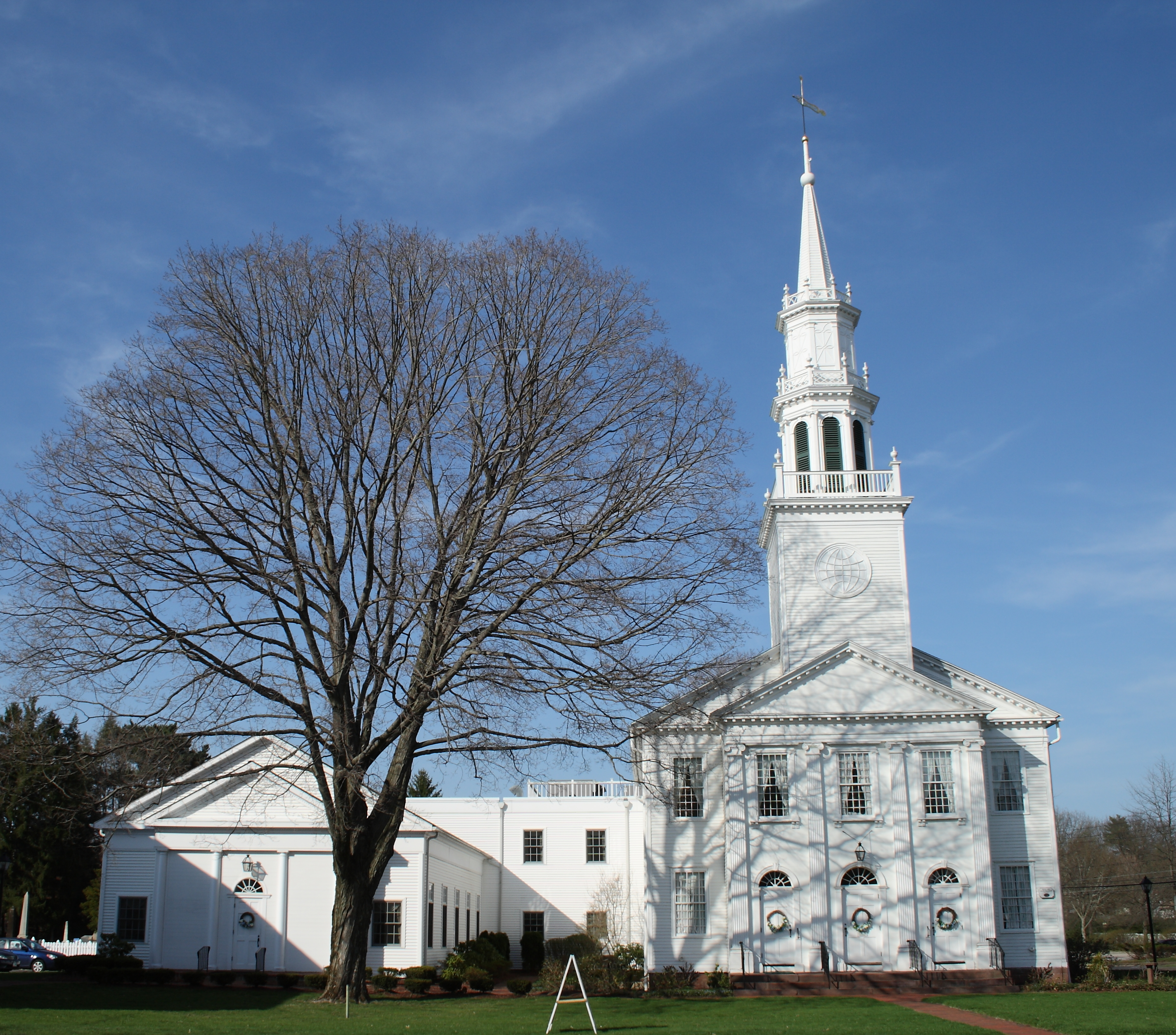 Avon Congregational Church, a Registered Historic Place in Avon, Connecticut.